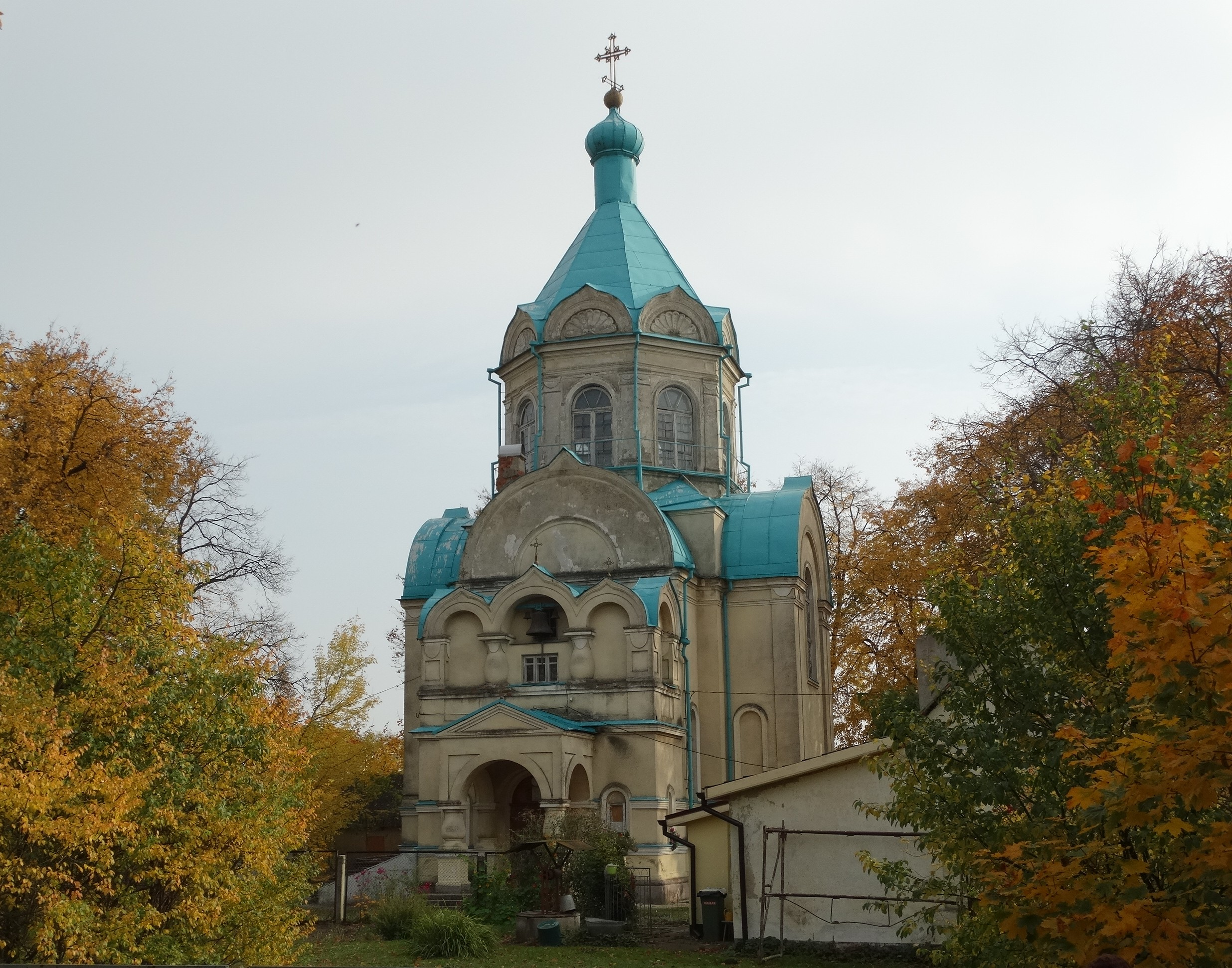 Orthodox Church, Kybartai, Lithuania